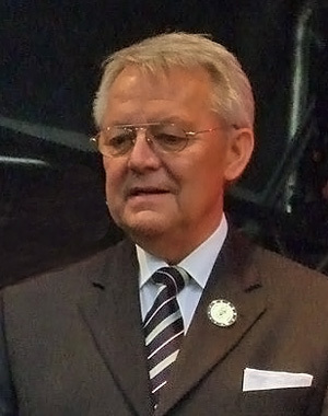 Walter Eversheim, Angela Merkel and Jürgen Linden at the Charlemagne Prize celebration 2008 other images of the same event